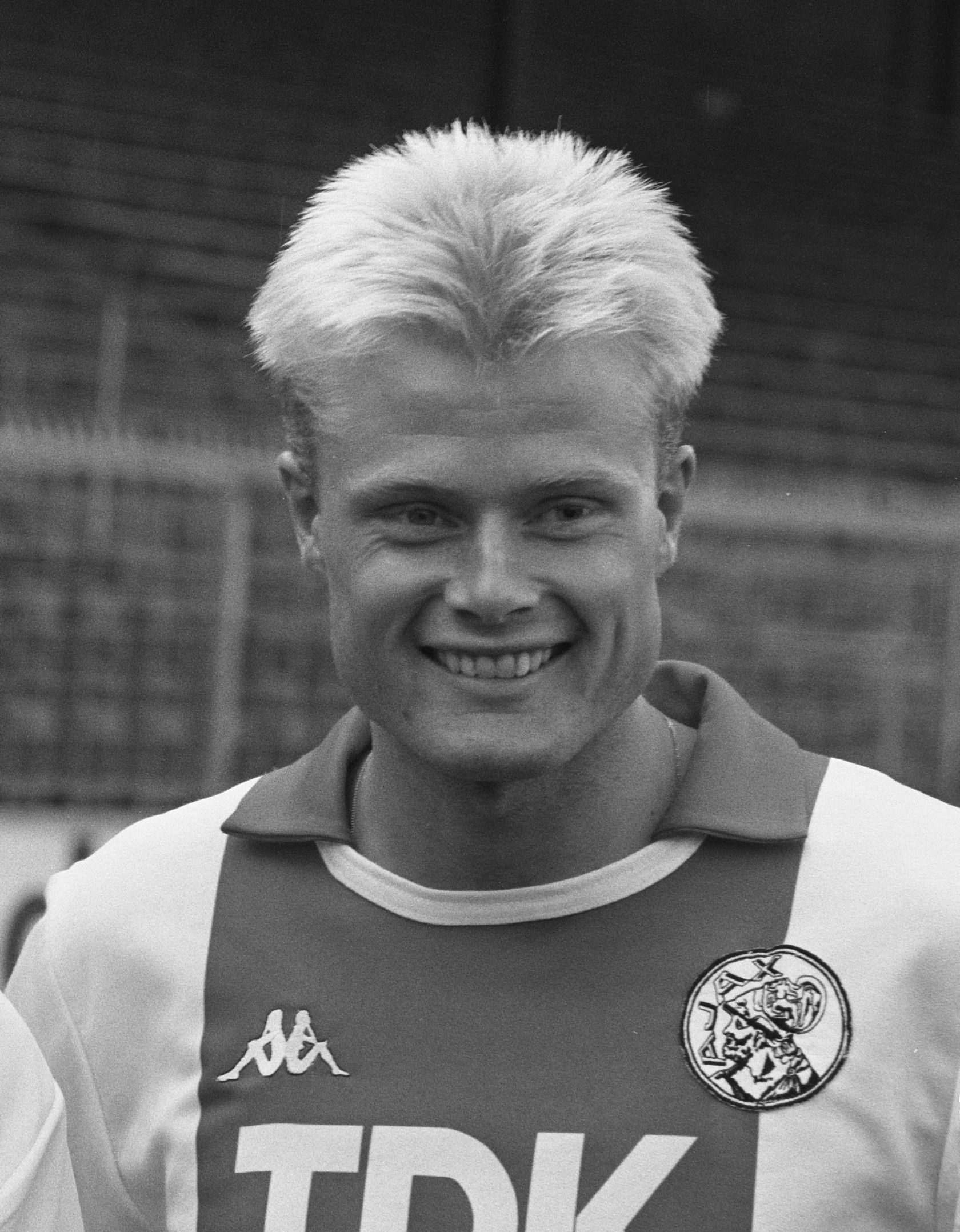 Peter Larsson (born 1961)